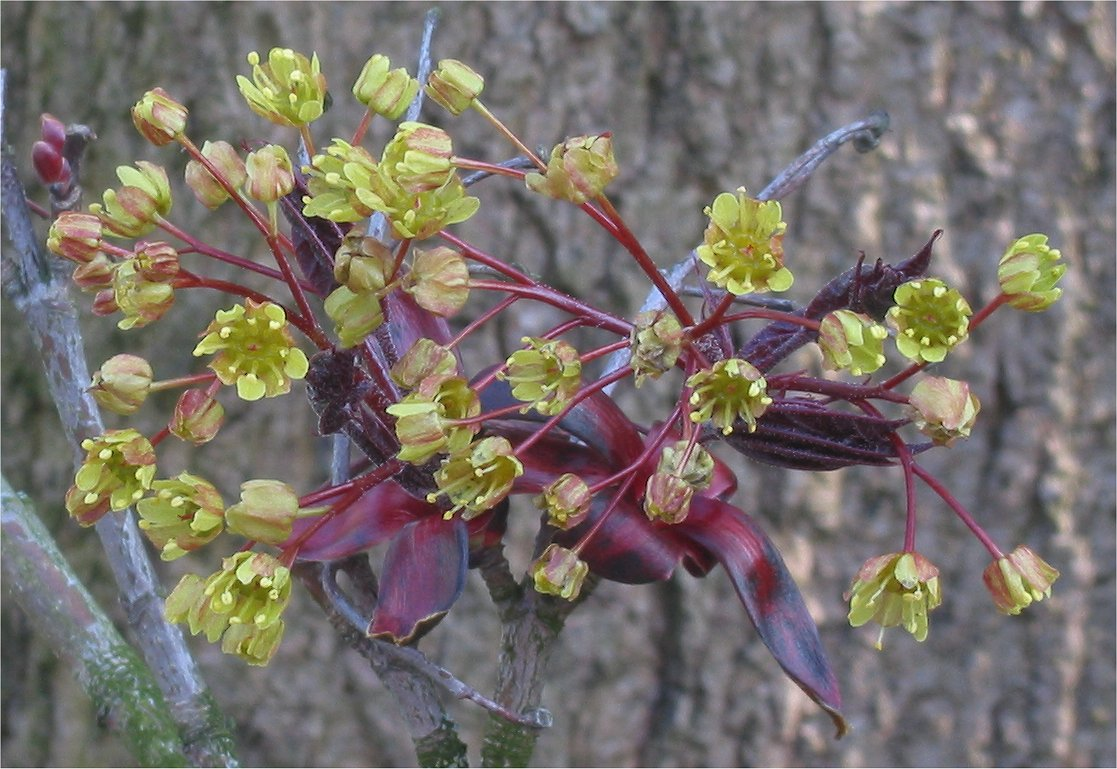 Acer platanoides 'Schwedleri' ( Noorse esdoorn ) flowers